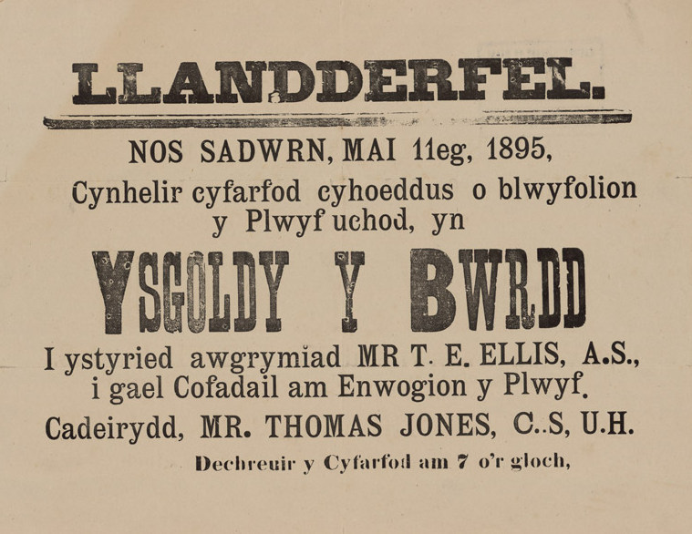 Ysgoldy y Bwrdd Llandderfel